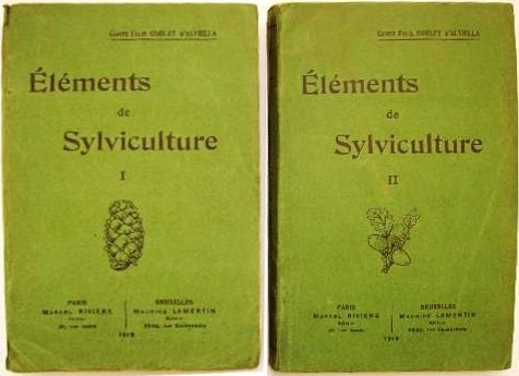 "Eléments de Sylviculure" Eugène Goblet d'Alviealla. 1919 . Paris Book cover. Forestry.